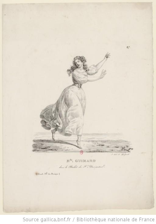 Marie-Madeleine Guimard in the ballet "Le Premier Navigateur"